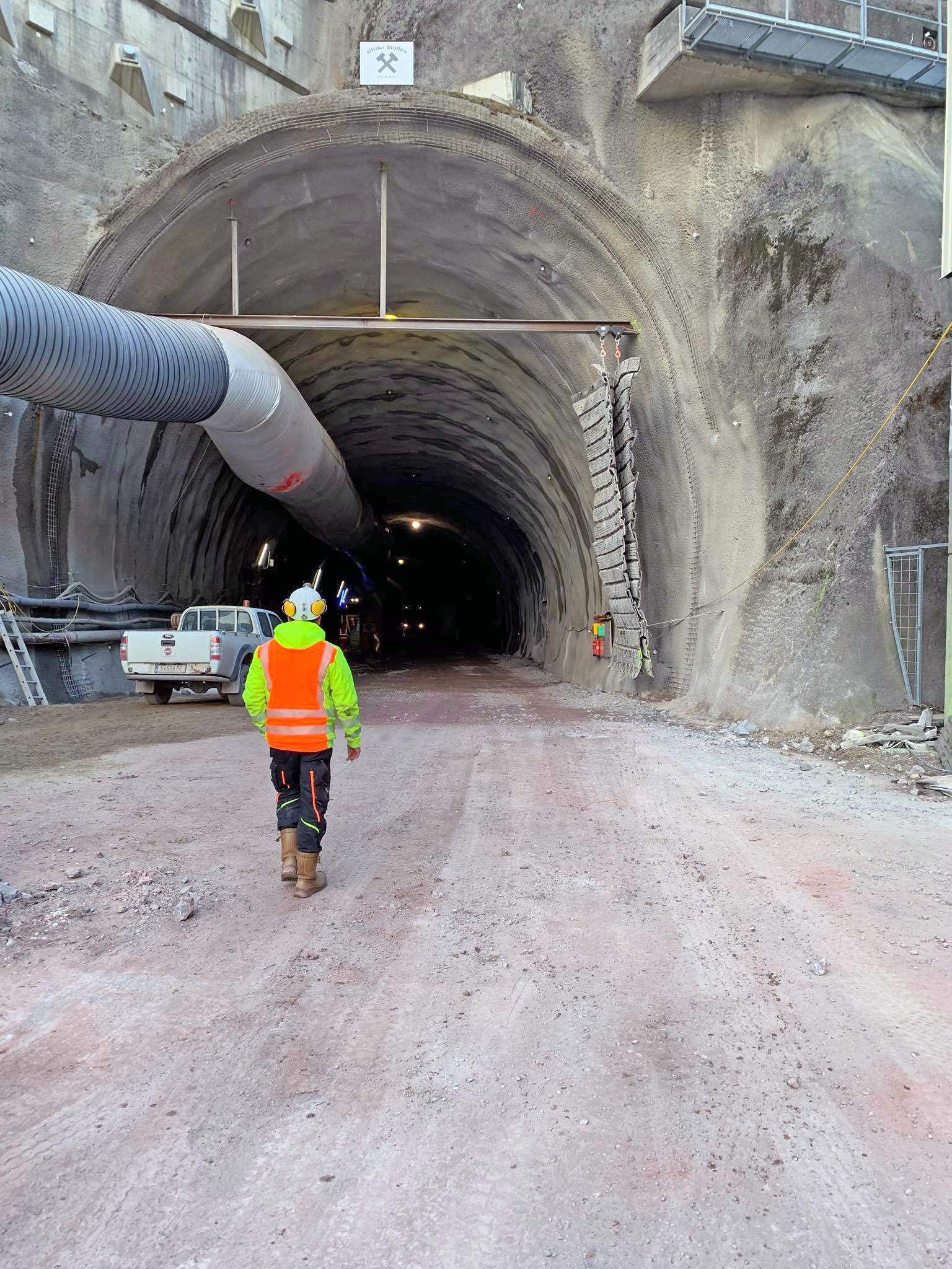 North entrance of the Karawanks motorway tunnel during construction of the east-tube, seen from Austria in November 2018